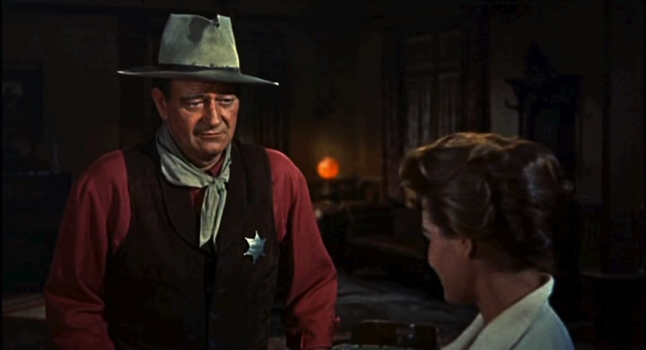 Cropped screenshot of John Wayne and Angie Dickinson from the trailer for the film Rio Bravo